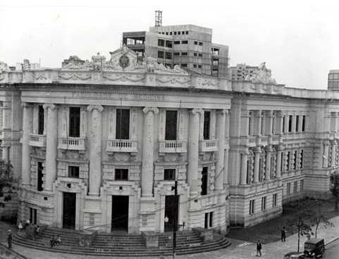 Medicina antiga